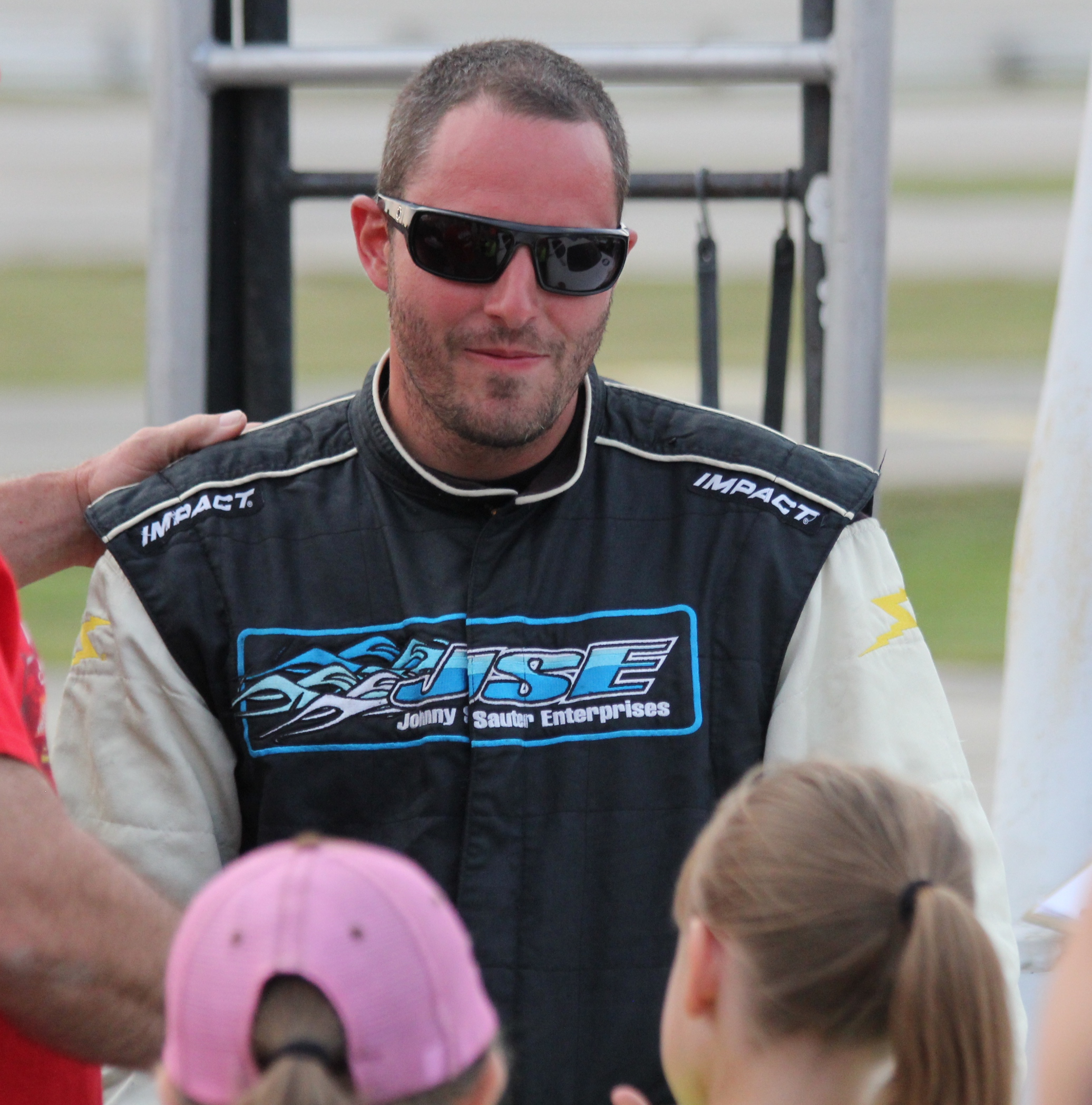 NASCAR driver Johnny Sauter interacting with fans at Wisconsin International Raceway. Sauter was racing at the track on an off weekend and he won the event.